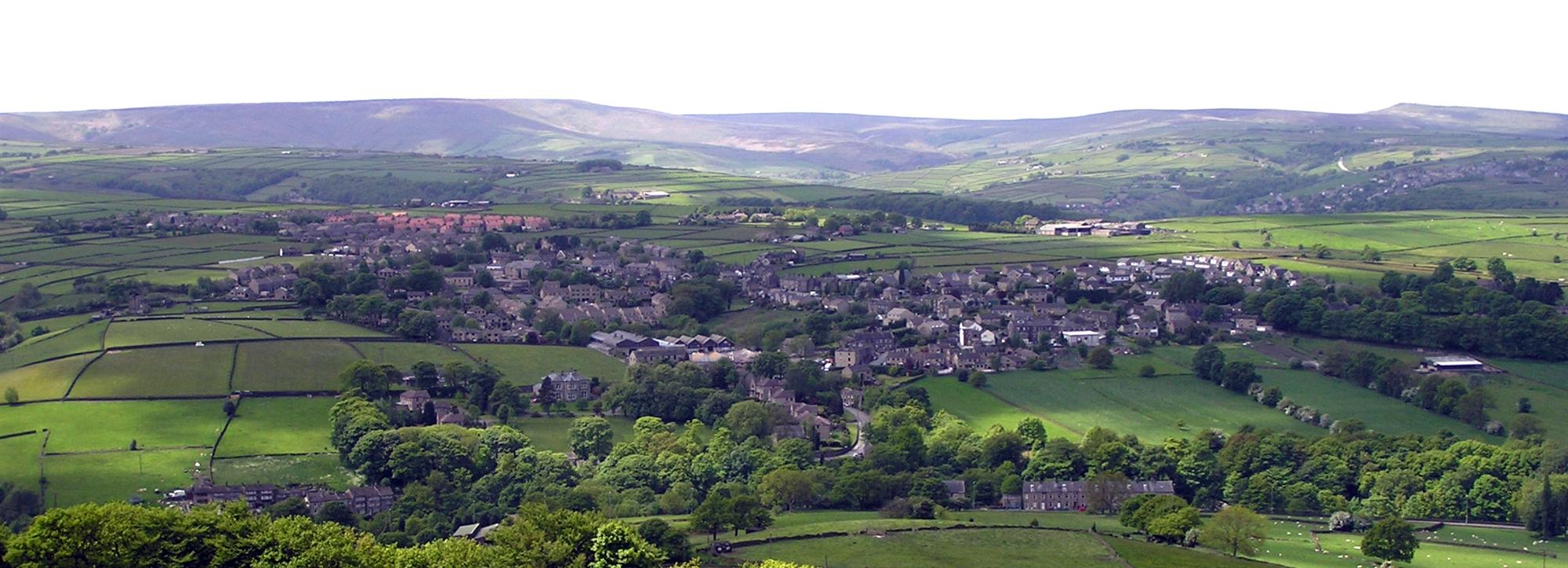 View of Scholes, Holmfirth, Kirklees from Tenter Hill